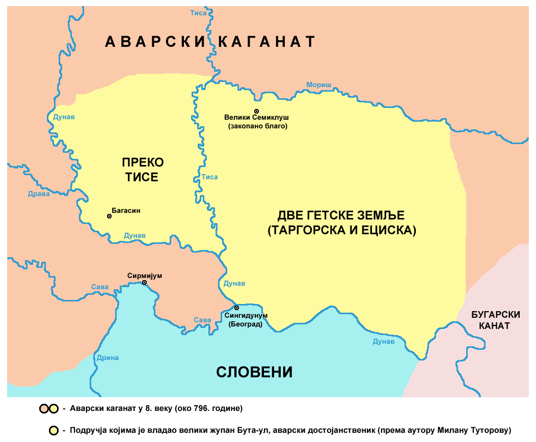 Areas ruled by great župan Buta-ul, Avar dignitary, 8th century (around 796), according to Serbian author Milan Tutorov.